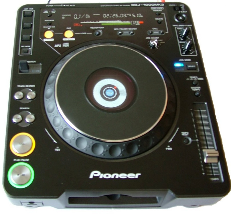 Picture of a Pioneer CDJ-1000MK3. Taken by Dj oggy and then tidied up round the edges in GIMP!